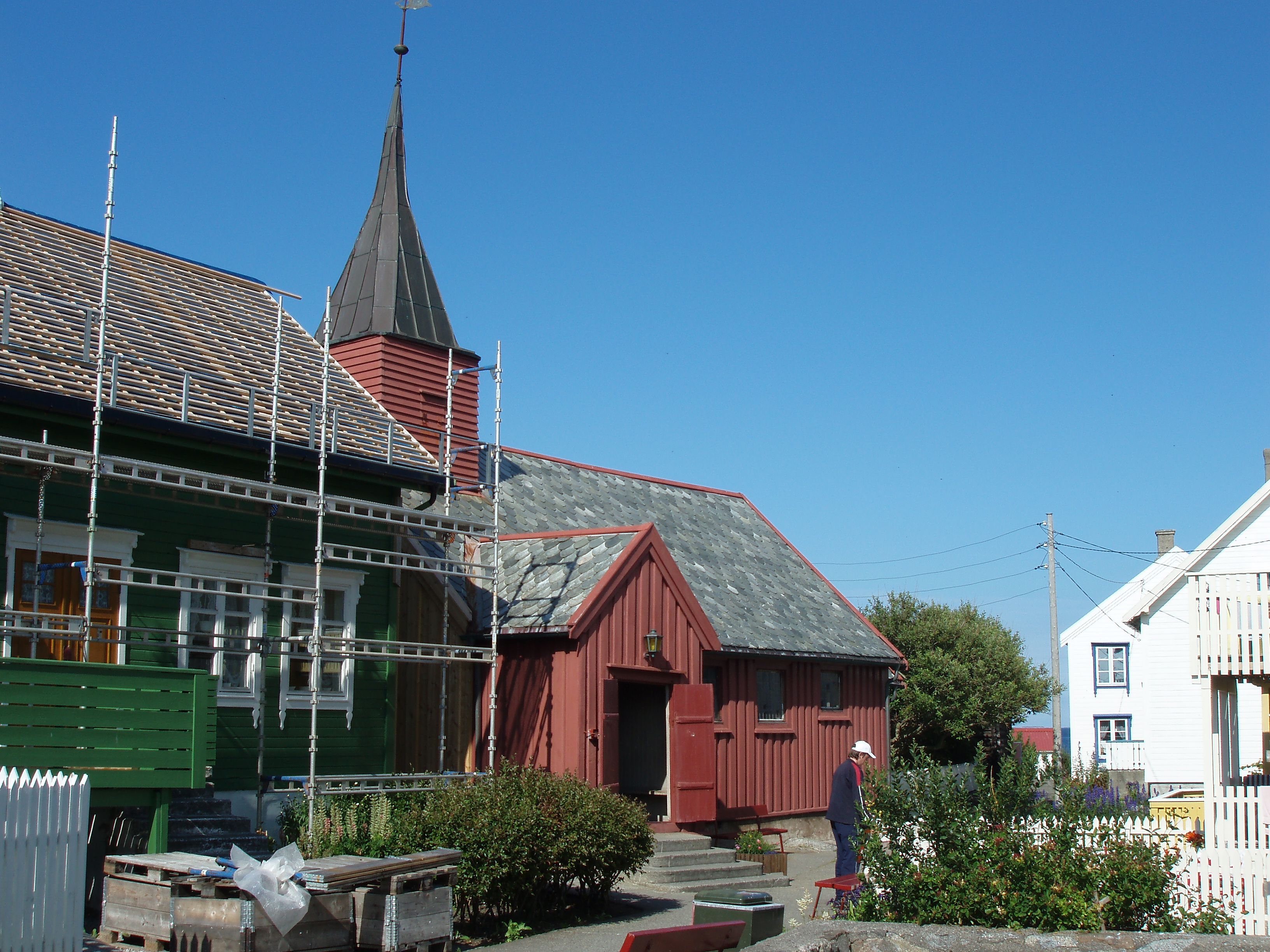 Grip stave church in Kristiansund municipality in Møre og Romsdal county in Norway.